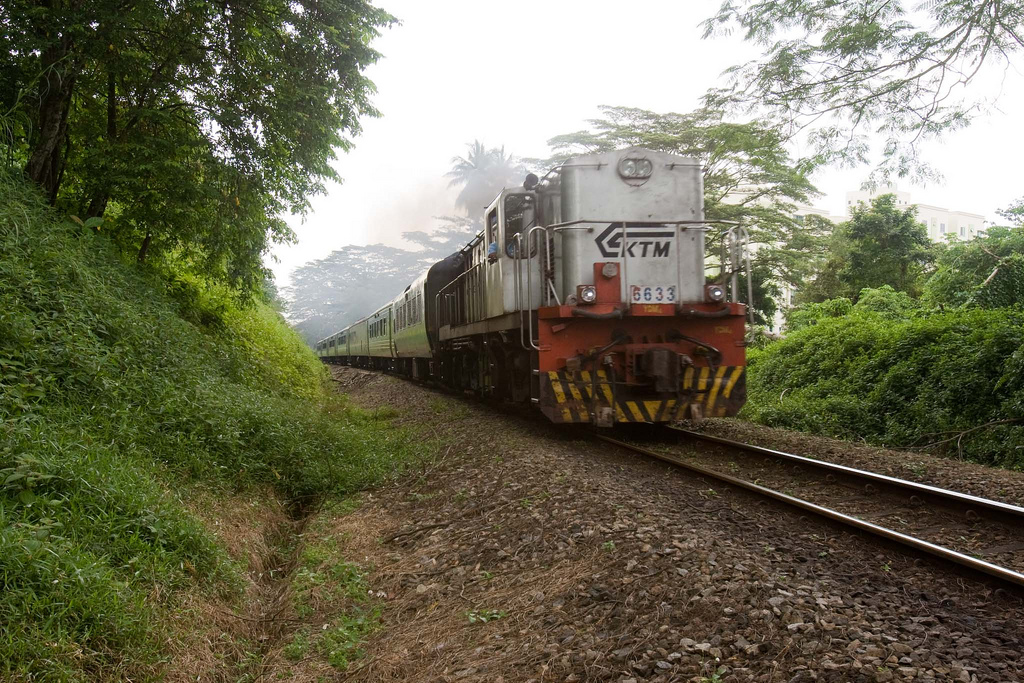 A Keretapi Tanah Melayu (Malaysian Railways) train heading north, Singapore.